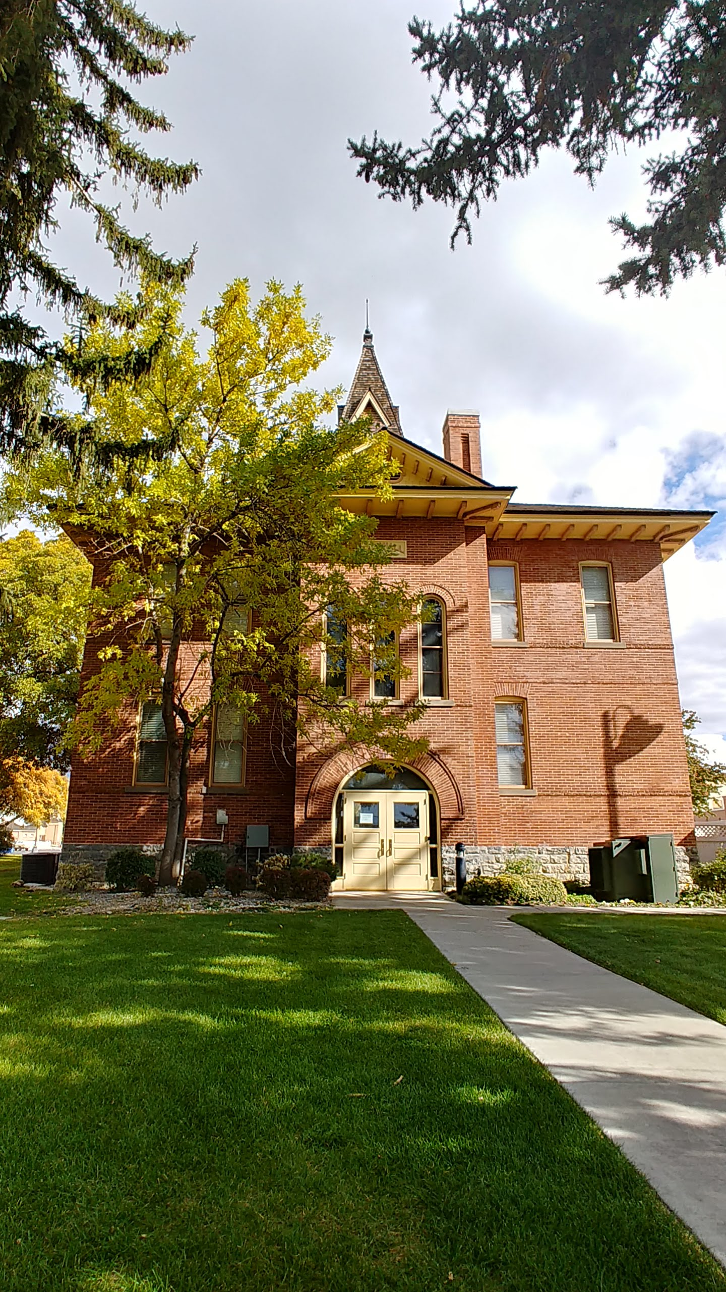 American Fork City Hall - back